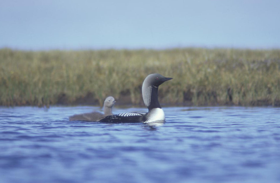 Arctic Loon (Gavia arctica) and chick